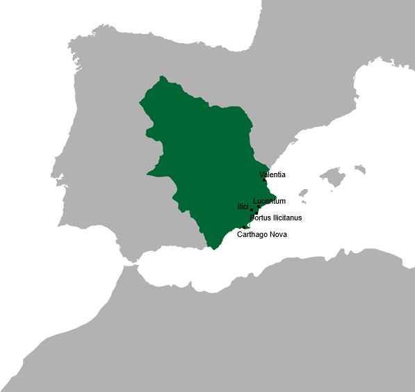 Former Roman Province of Carthaginiensis (green) with Valentia (today Valencia), Lucentum (Alicante), Ilici (Elche), Portus Ilicitanus (Santa Pola) and Carthago Nova (Cartagena)